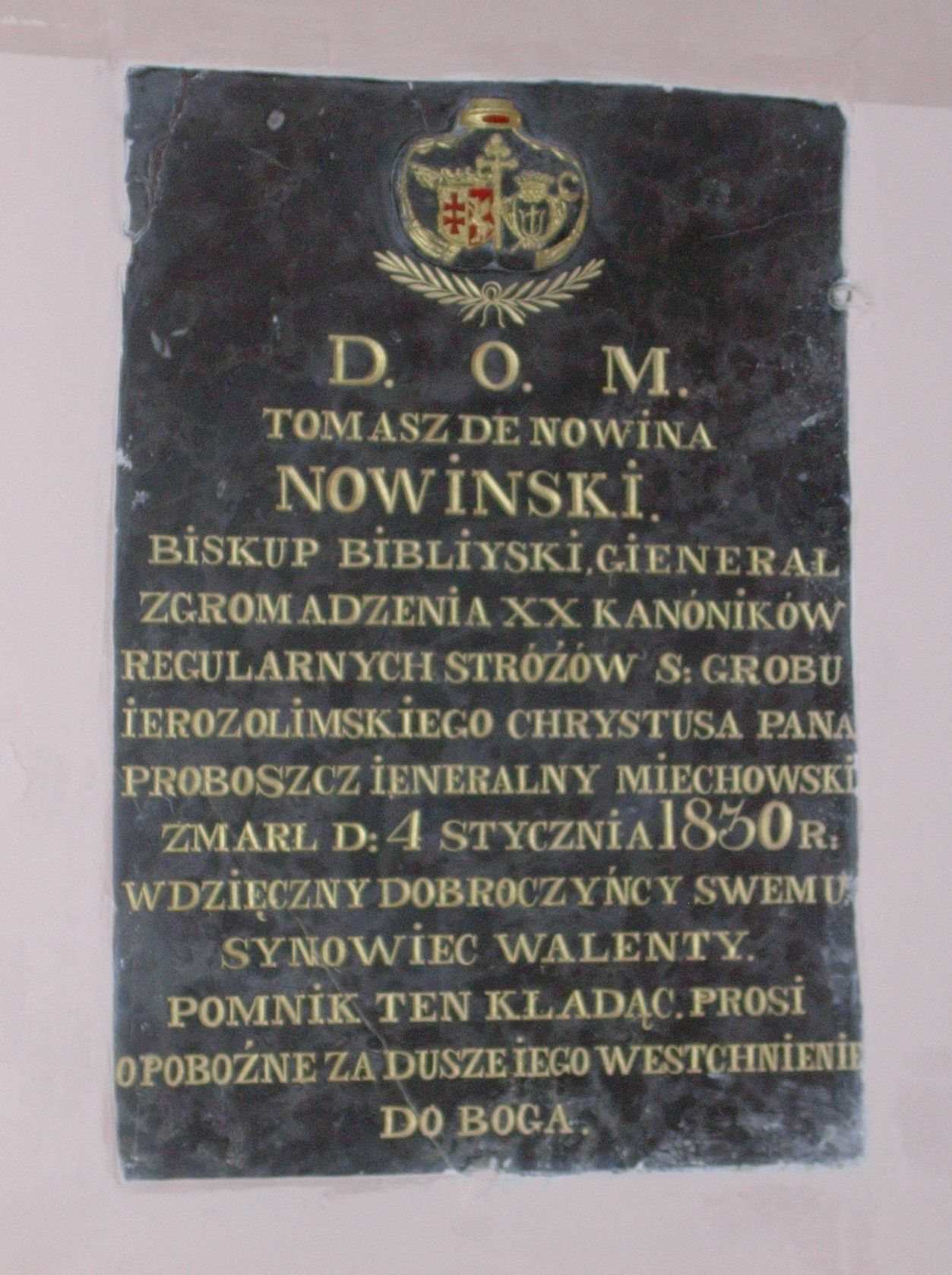 The plaque of bishop Tomasz Nowina – Nowinski in Basilica of the Holy Sepulchre in Miechow, Poland